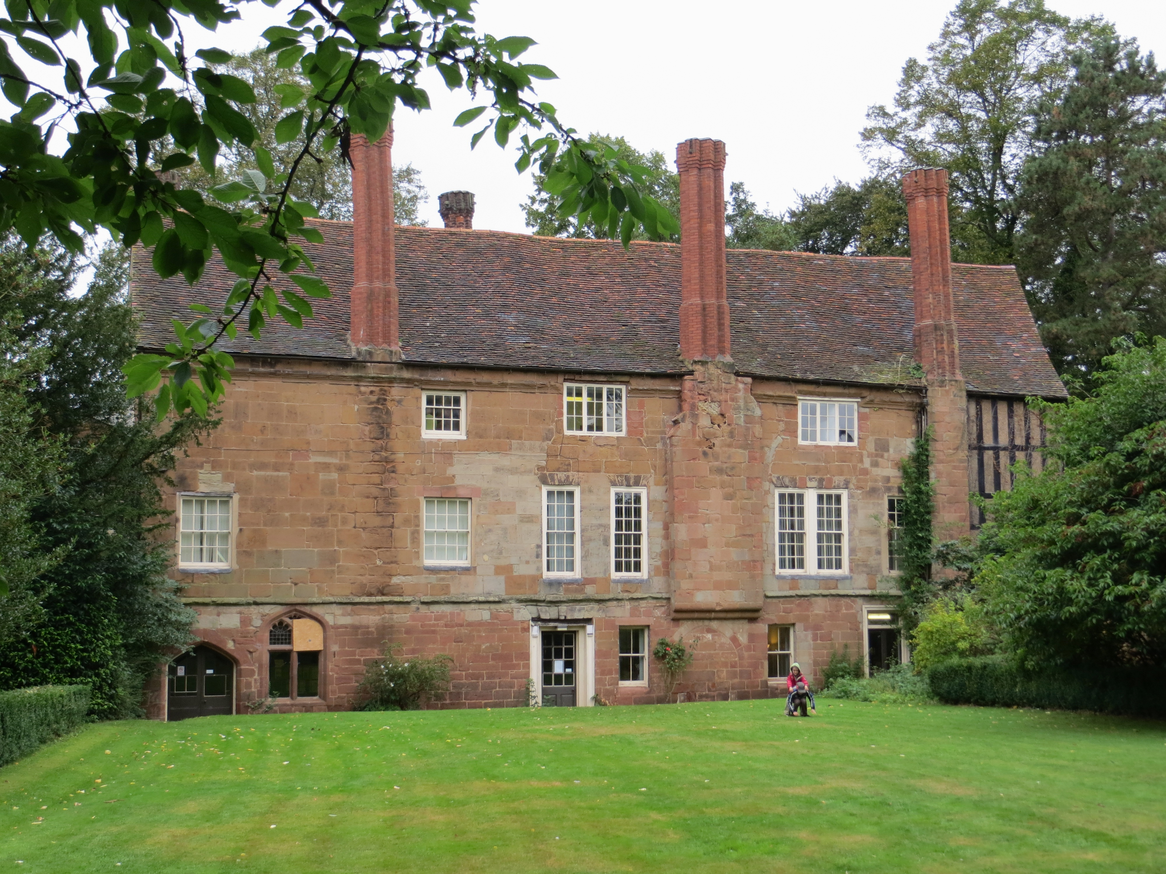 Coventry Charterhouse Priory by mintchocicecream